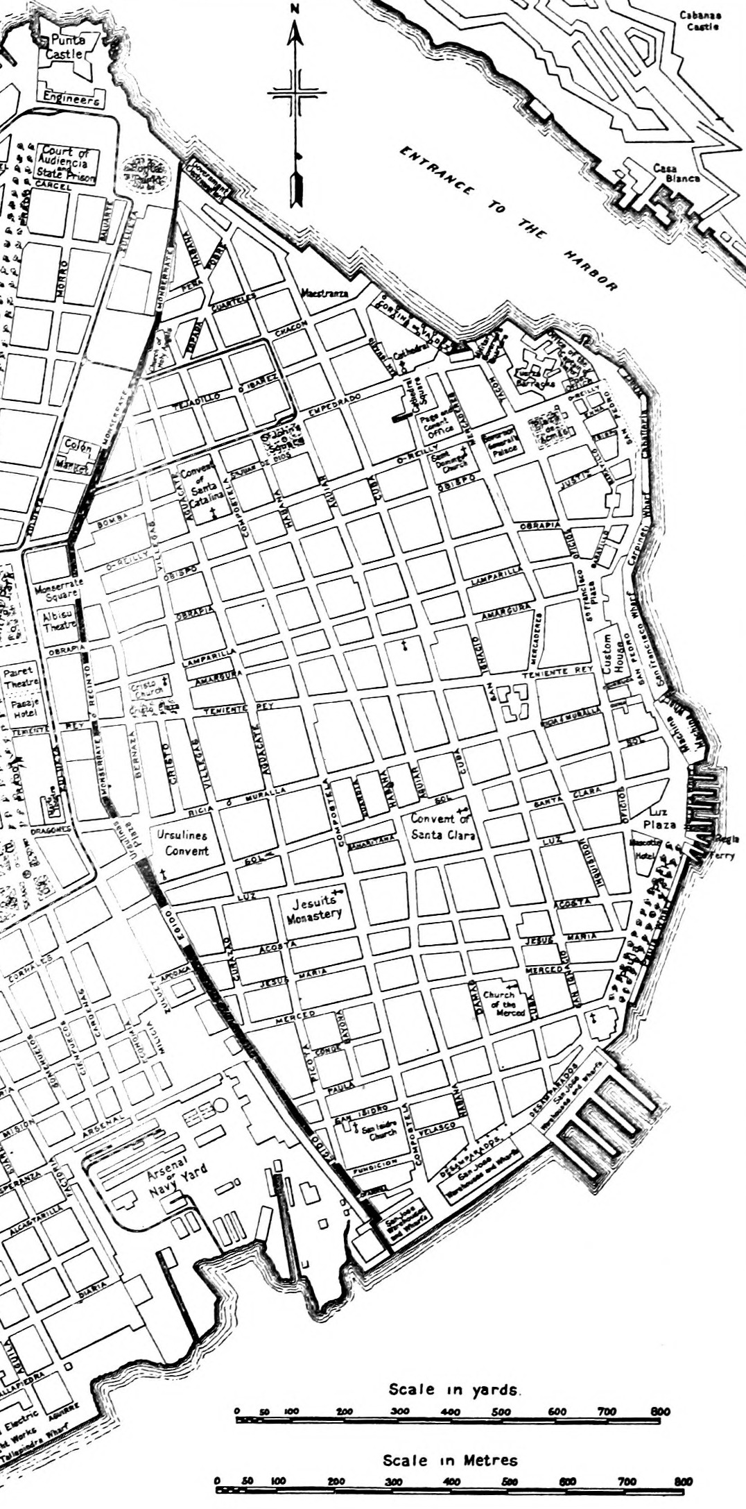 Part of a map of Havana as of 1899, cropped to the yellow fewer district where yellow fever eradication efforts were piloted starting in 1901. Title: Mosquito control in Panama; the eradication of malaria and yellow fever in Cuba and Panama Year: 1916 (1910s) Authors: Le Prince, Joseph Albert Augustin, 1875-; Orenstein, Alexander Jeremiah, 1879- Subjects: Mosquitoes; Public health Publisher: New York London, G. P. Putnam's sons Text Appearing Before Image: ' Text Appearing After Image: Map of Havana: Showing the yellow fever district